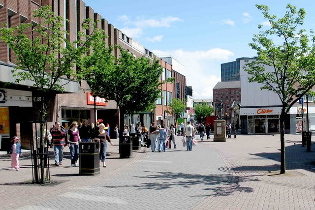 Hanley